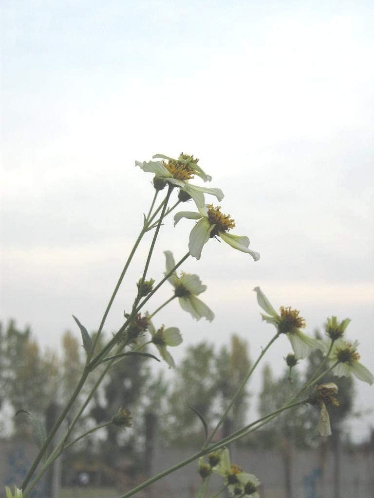 Bidens aurea (Aiton)Sherff